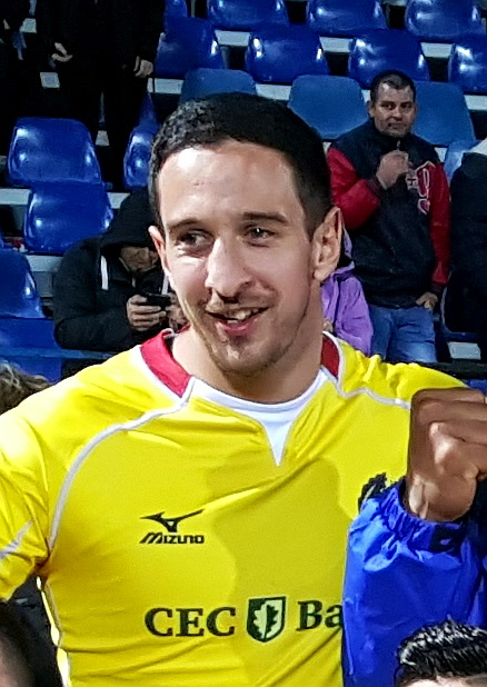 Stephen Shennan of Romania National Rugby Team after a test match against United States National Rugby Team in November 2016